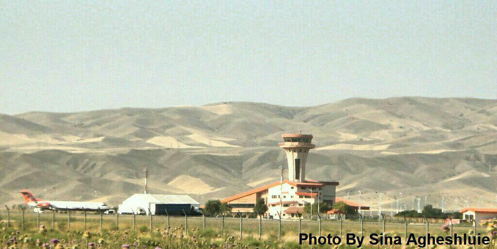 khoy airport with fokker 100plane